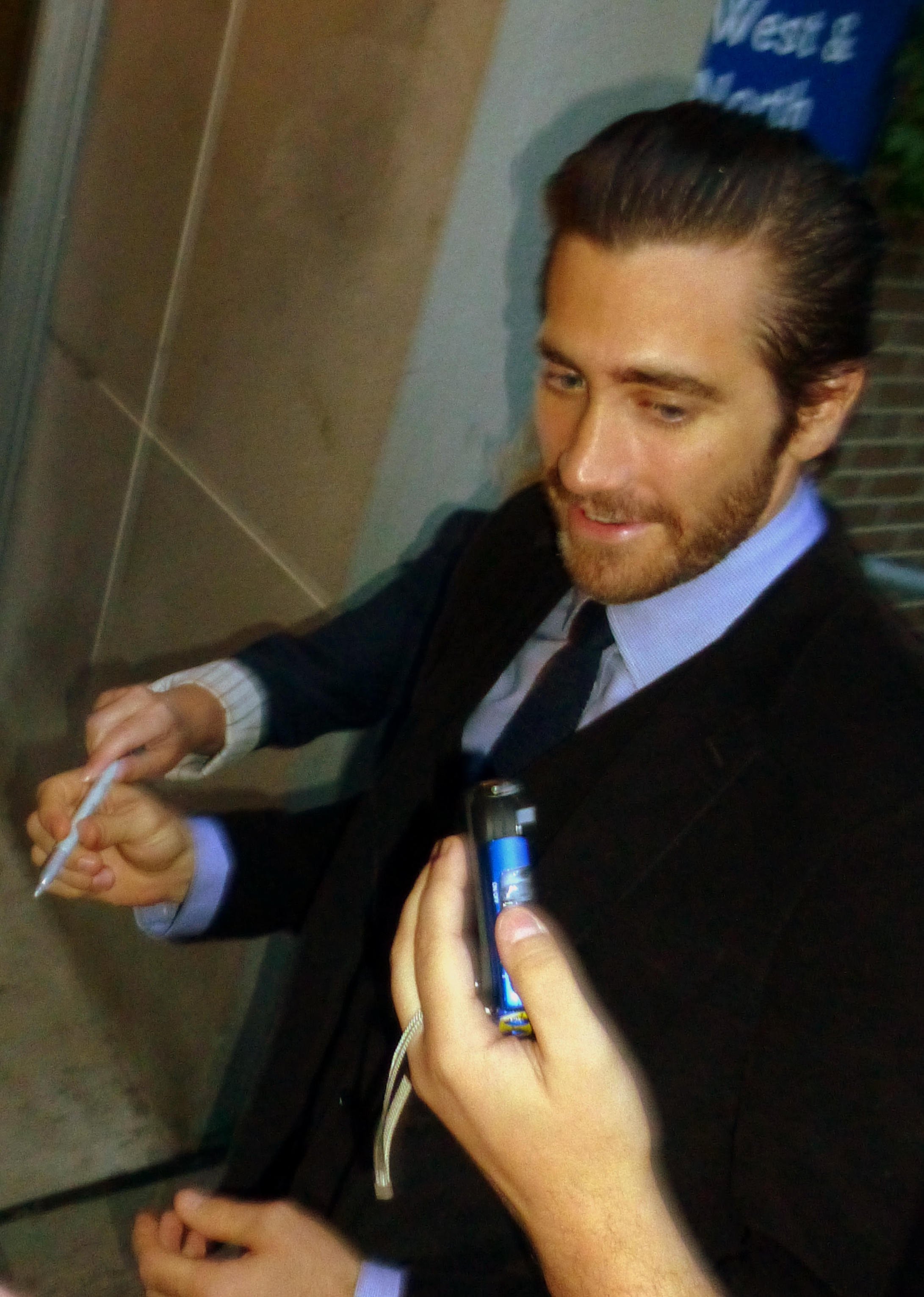 Jake Gyllenhaal at the premiere of Enemy, Toronto Film Festival 2013